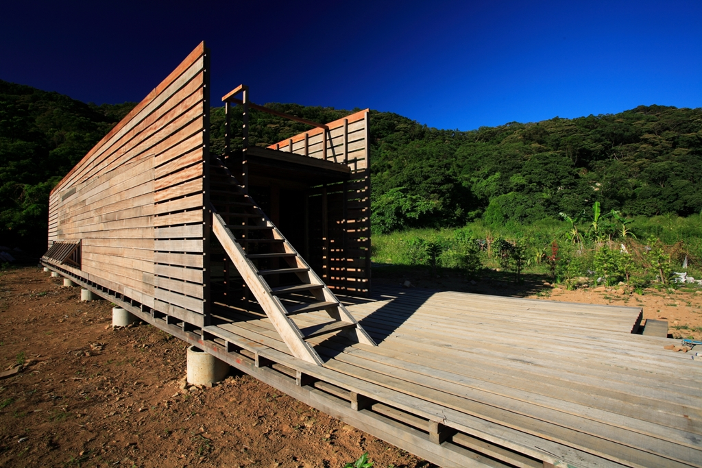 Marco Casagrande, Frank Chen: Chen House; Sanjhih, Taiwan 2008. Photo: AaDa.